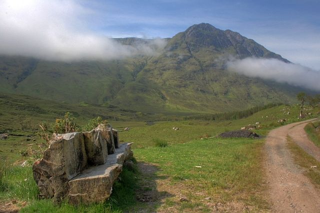 Seat, Glen Elchaig Marking the start of the footpath to the Falls of Glomach. Behind is the 729m hill Carnan Cruithneachd (NG9925).